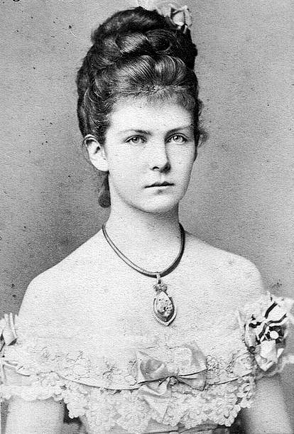 Her Royal Highness The Hereditary Grand Duchess of Oldenburg (1857-1895) née Her Royal Highness Princess Elisabeth Anna of Prussia.